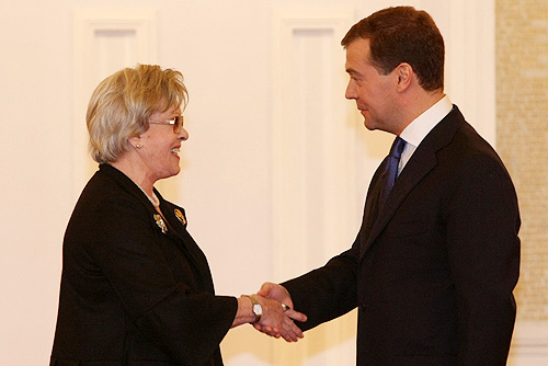 THE KREMLIN, MOSCOW. A national award has been awarded to actress Alisa Freindlikh for creating artistic portrayals that have become classics of Russian cinema and theatrical art.